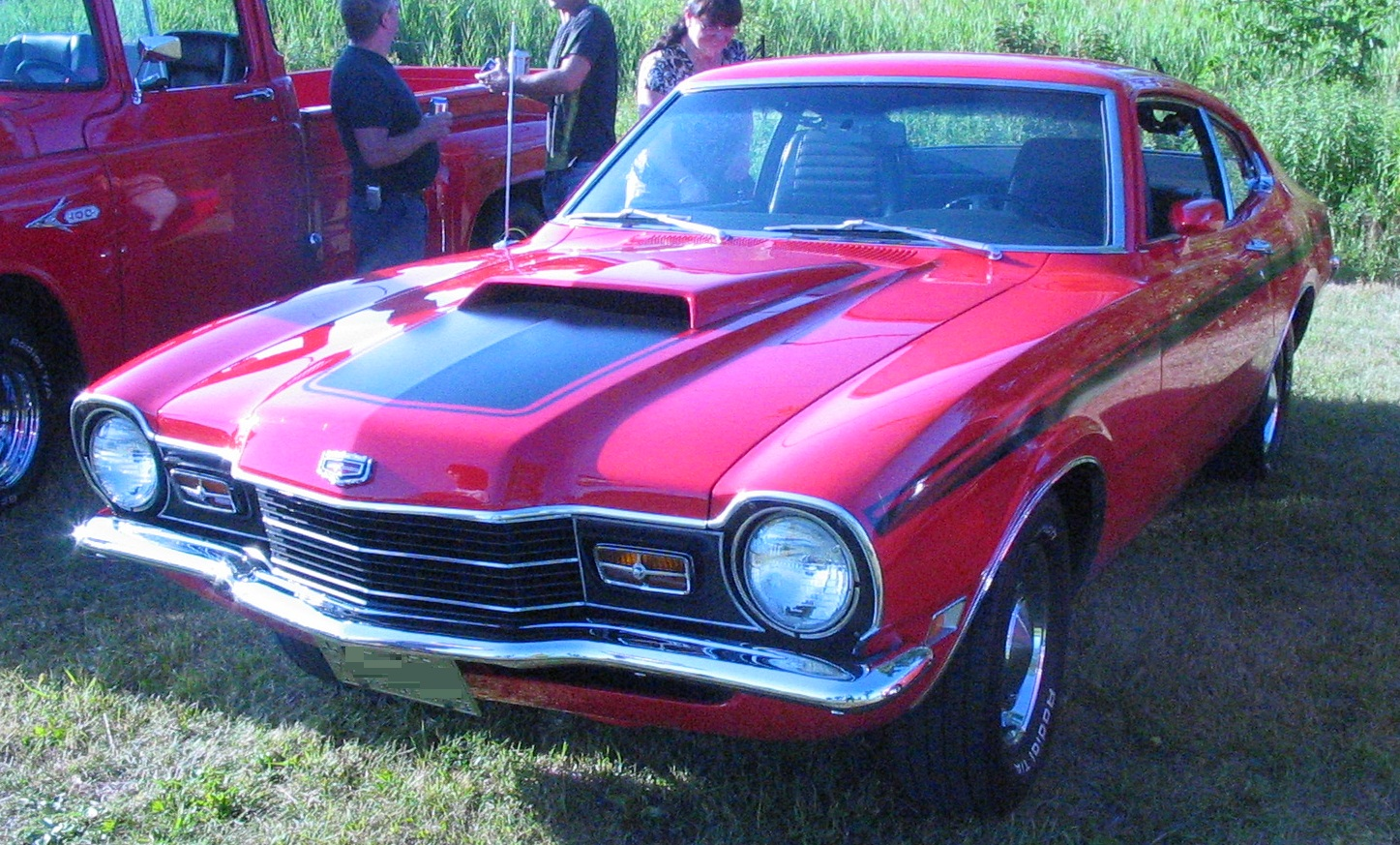 1971 Mercury Comet GT photographed in Mont St. Hilaire, Quebec, Canada at the Auto classique VAQ Mont St-Hilaire.